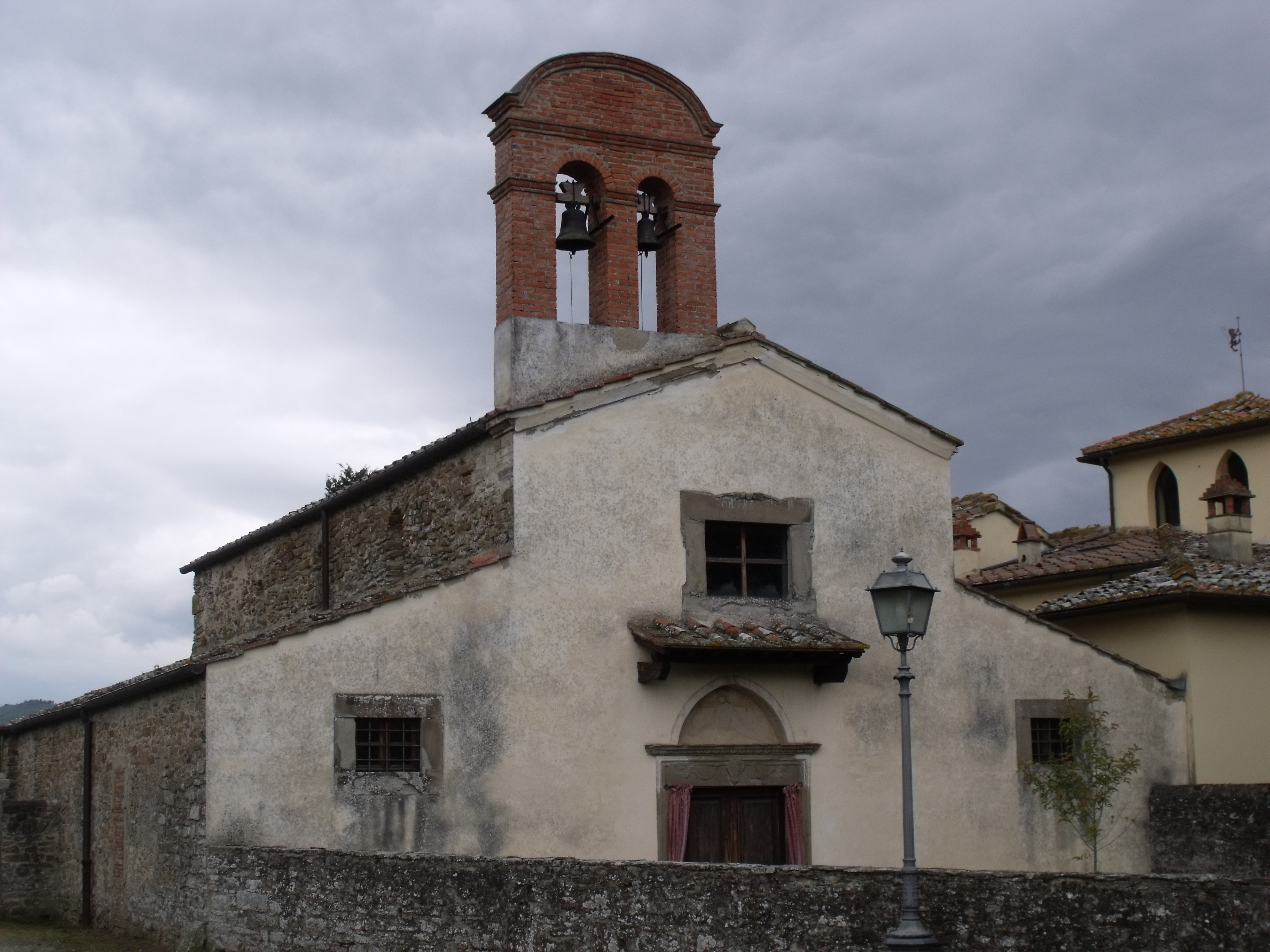 Church / Pieve di Santa Maria Maddalena a Sietina near Capolona, Casentino, Province of Arezzo, Tuscany, Italy